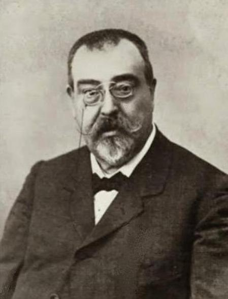 José Tolosa Y Carreras (1846-1916), Spanish (Catalan) doctor, chess player and problemist.